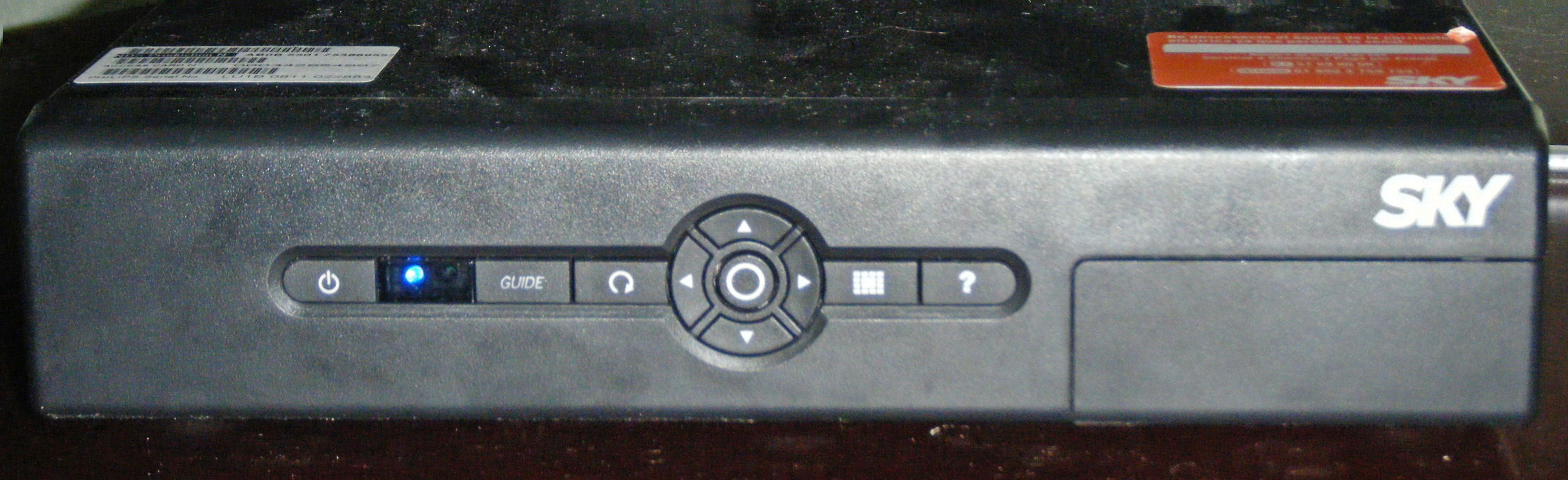 A SKY device.